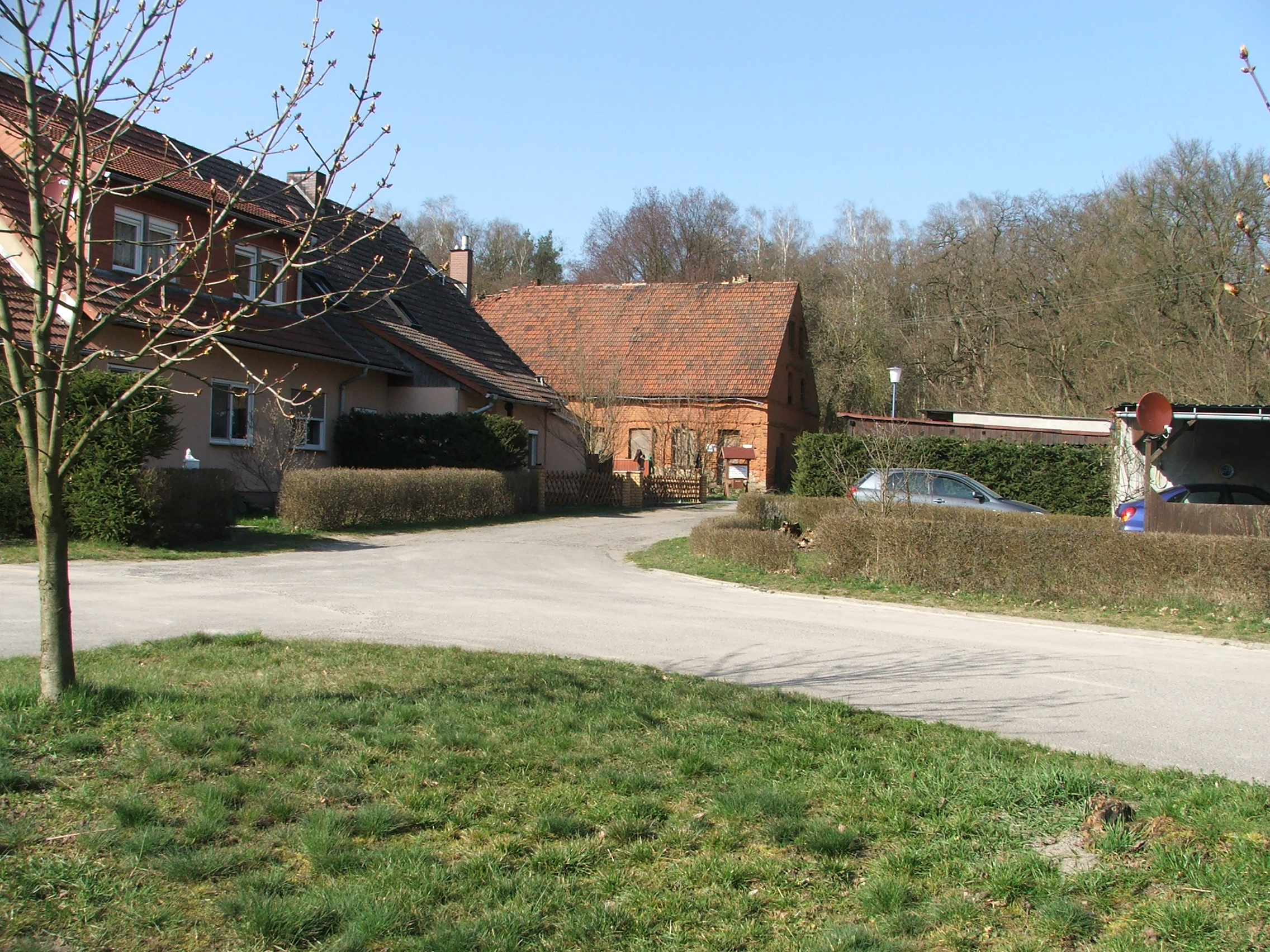 Weißenburg, city of